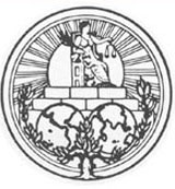 Logo of the International Court of Justice, principal judicial organ of the United Nations